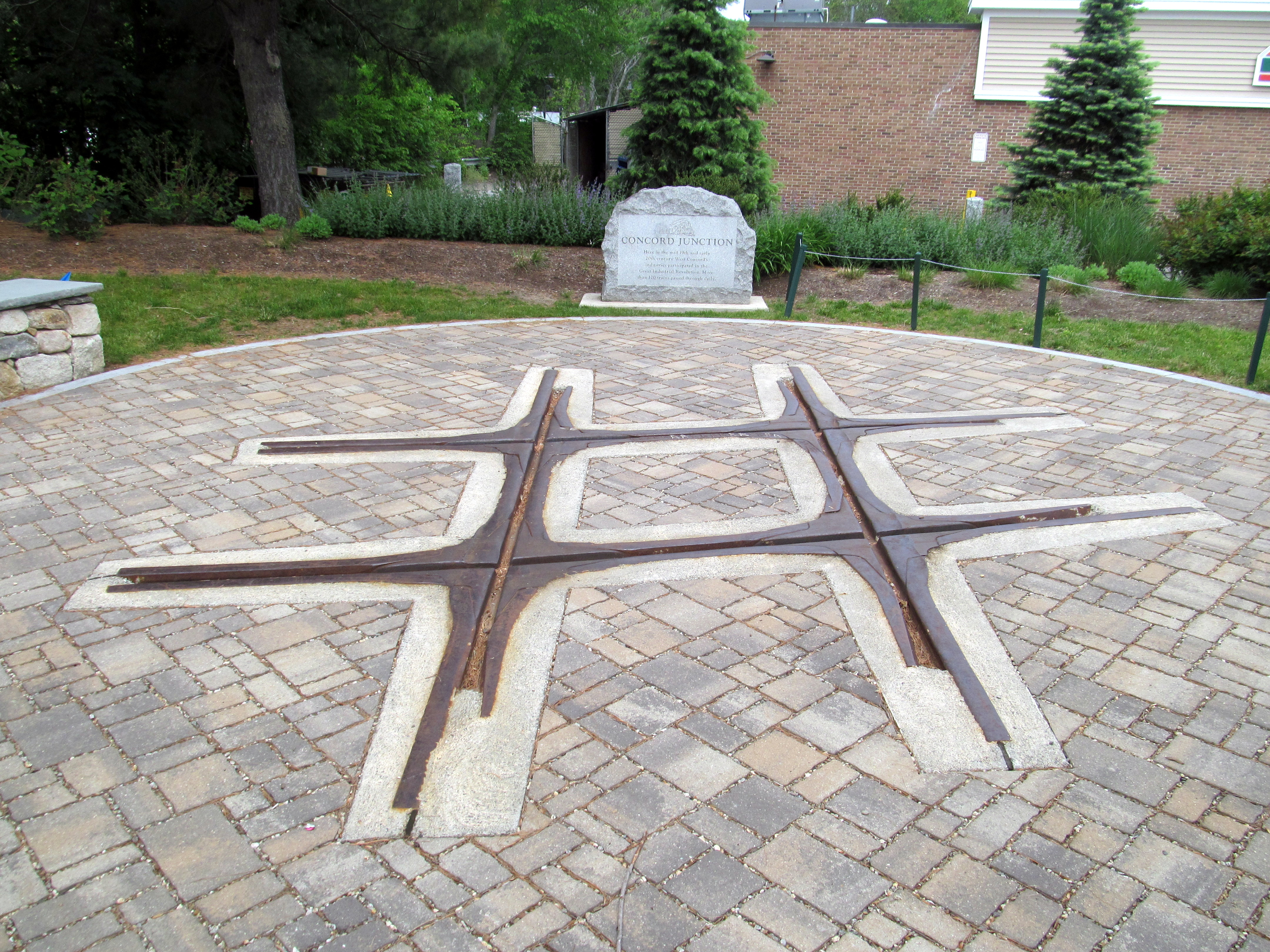 The former diamond crossing at Concord Junction (West Concord) station, moved slightly and restored, in May 2017